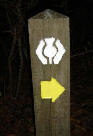 Official logo of the West Highland Way